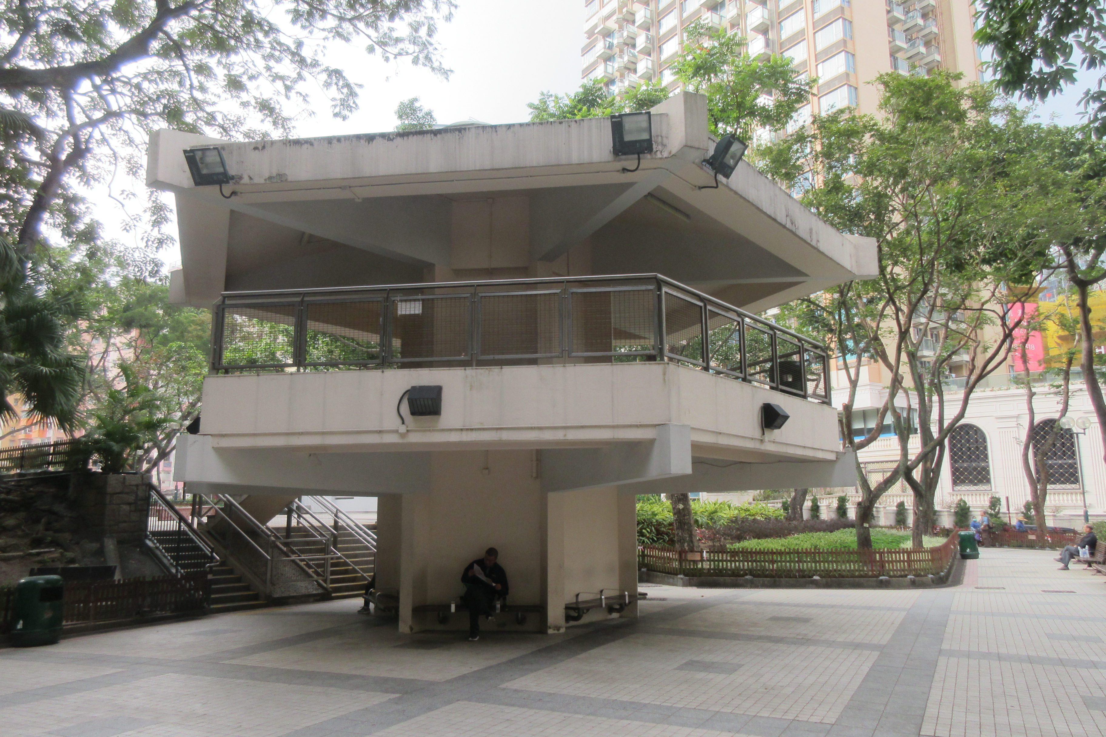 HK 觀塘 Kwun Tong 月華街 Yuet Wah Street Playground in December 2018